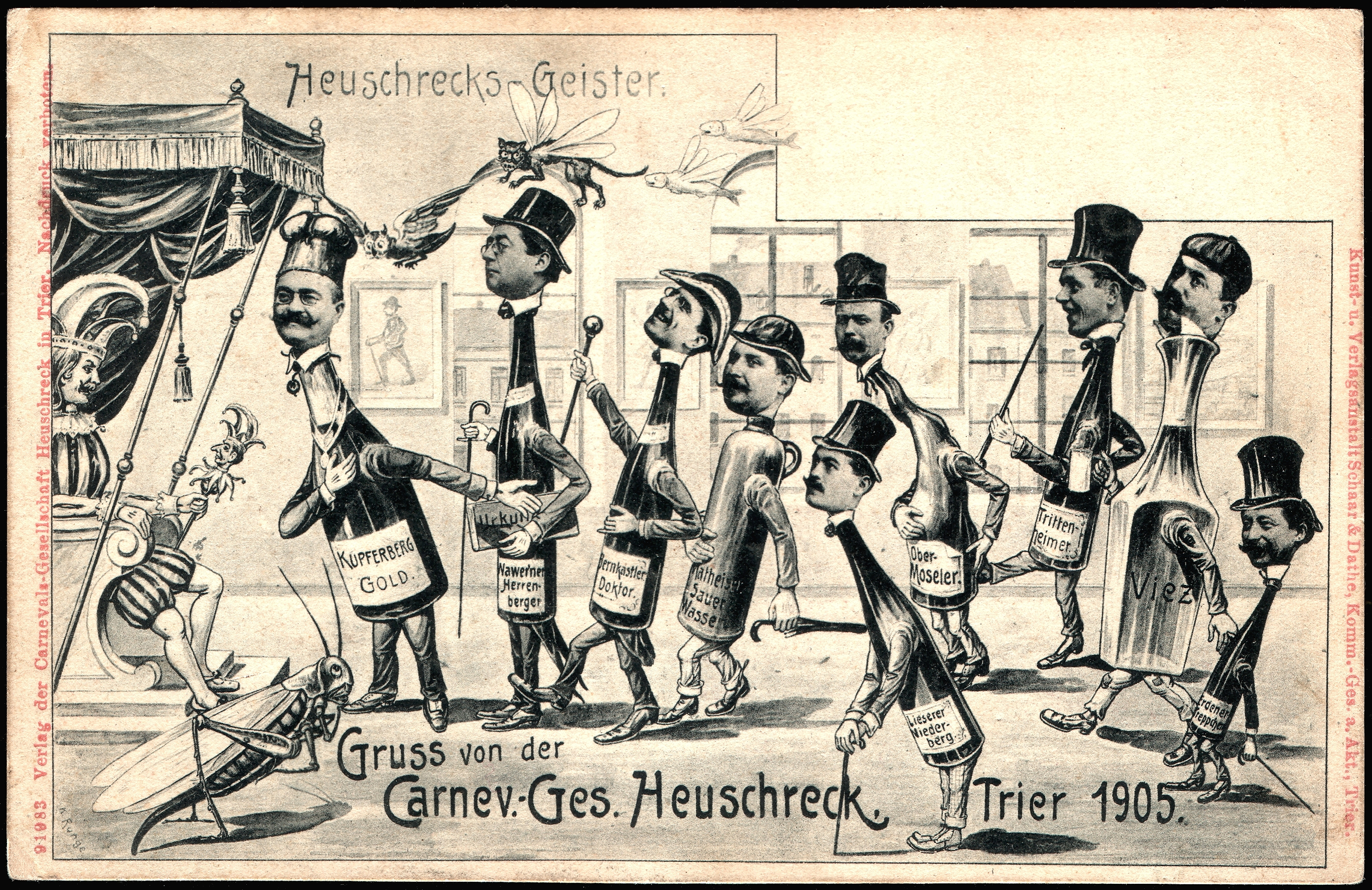 Caricature postcard issued in 1905 by Trierer Karnevalsgesellschaft Heuschreck, (Heuschreck = grasshopper), one of the oldest carnival associations in Germany (founded 1848). The card shows the board of the association Der Kleine Rat (The Small Council), its members are depicted as bottles. The labels signify where the counselors come from (from left to right): Kupferberg Gold from Trier, (in 1905 possibly the most expensive Sekt bottle for the president Julius Woytt), Wawerner Herrenberger, Bernkasteler Doctor‚ Matheiser Sauerwasser (a mineral spring in Trier-Süd), Lieserer Niederberg, Obermoseler, Trittenheimer (a word play: Tritt (de) = kick (en) - the counselor is kicking his colleague in the rear), Viez (apple wine from Trier and surroundings), Erdener Treppchen.